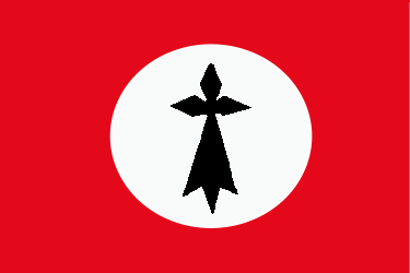 flag design used by the Breton Nazi party